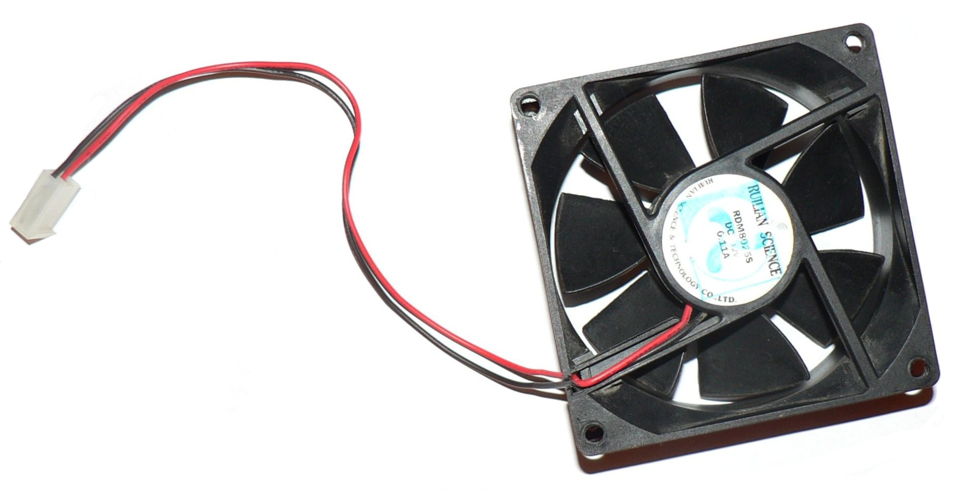 80x80x25mm computer cooling fan made by Ruilian Science.